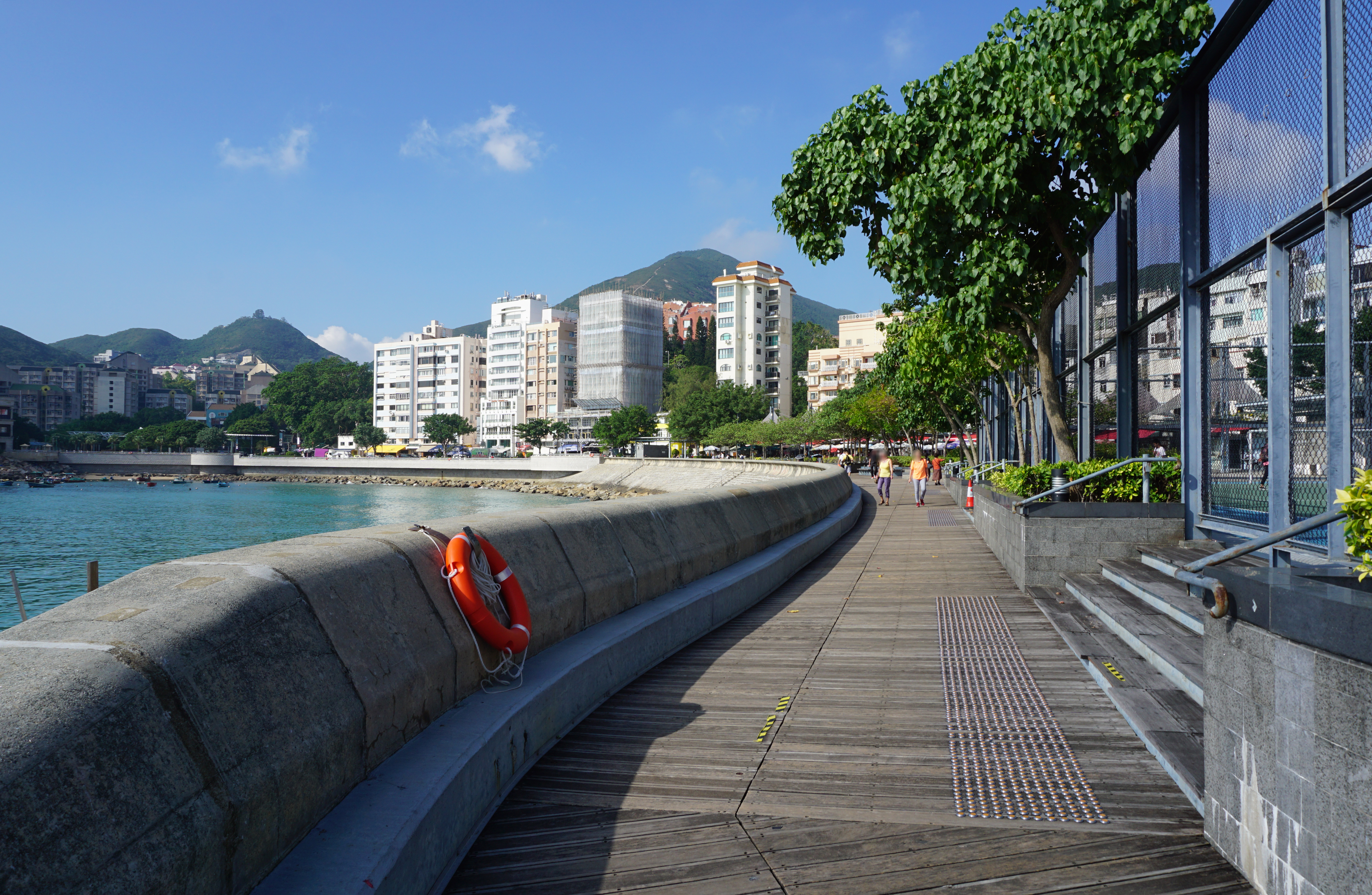 Promenade in Stanley, Hong Kong.